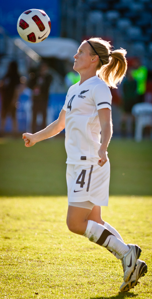 Katie Hoyle playing for the New Zealand women's national football team against Australia.